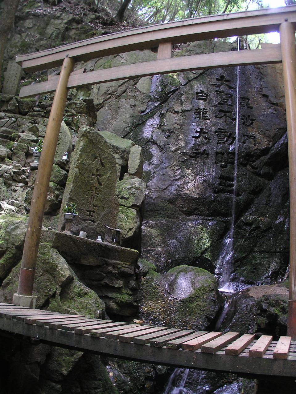 Iyagatani-ryujuin-waterfall of the mountaineering asceticism